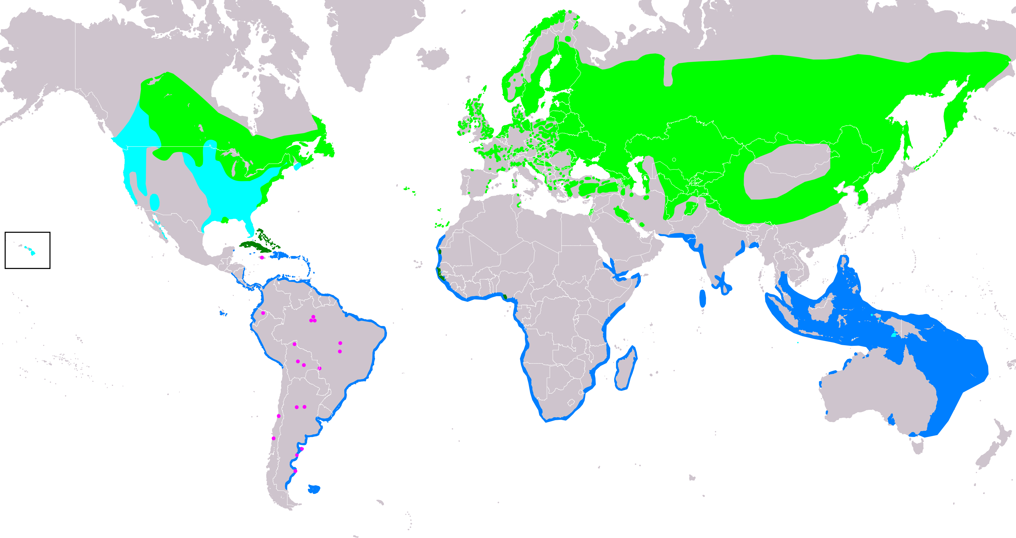 Distribution map of common tern (Sterna hirundo) according to IUCN version 2018.2 , Legend: Extant, breeding (#00FF00), Extant, resident (#008000), Extant, passage (#00FFFF), Extant, non-breeding (#007FFF), Extant & Vagrant (seasonality uncertain) (#FF00FF)